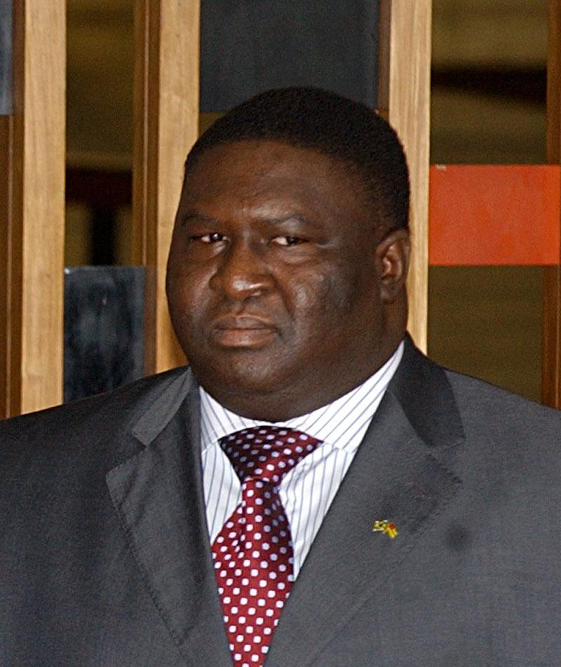 Pascal Bodjona, non-resident Ambassador of Togo to Brazil presented his credentials to Luiz Inácio Lula da Silva, President of Brazil.